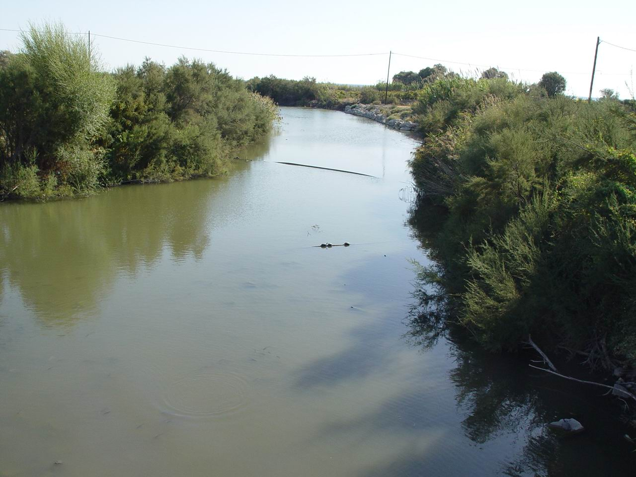 The Psaropotamos on Lesvos